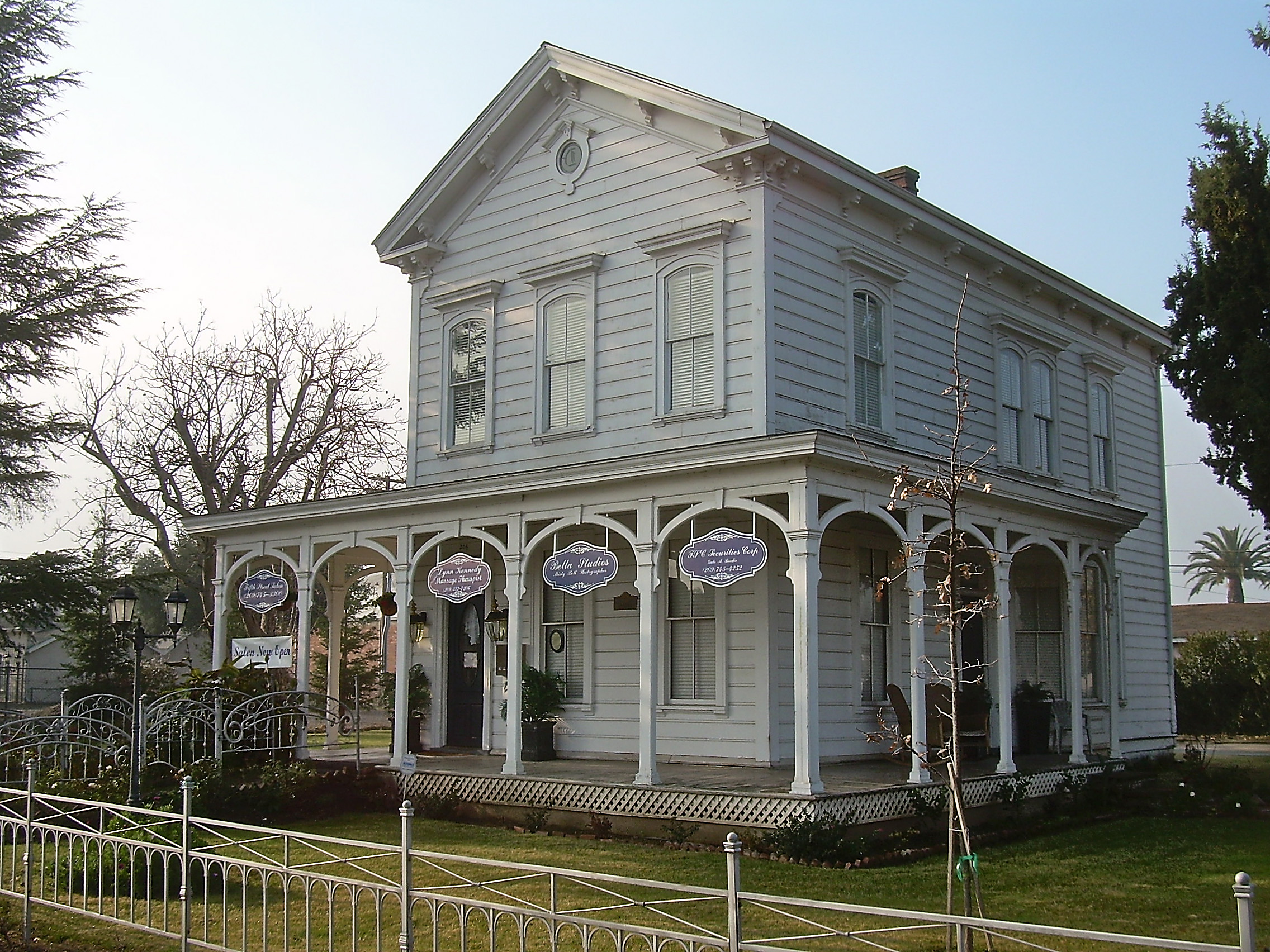 A view of the Brewster House in Galt, California, a home on the National Register of Historic Places.